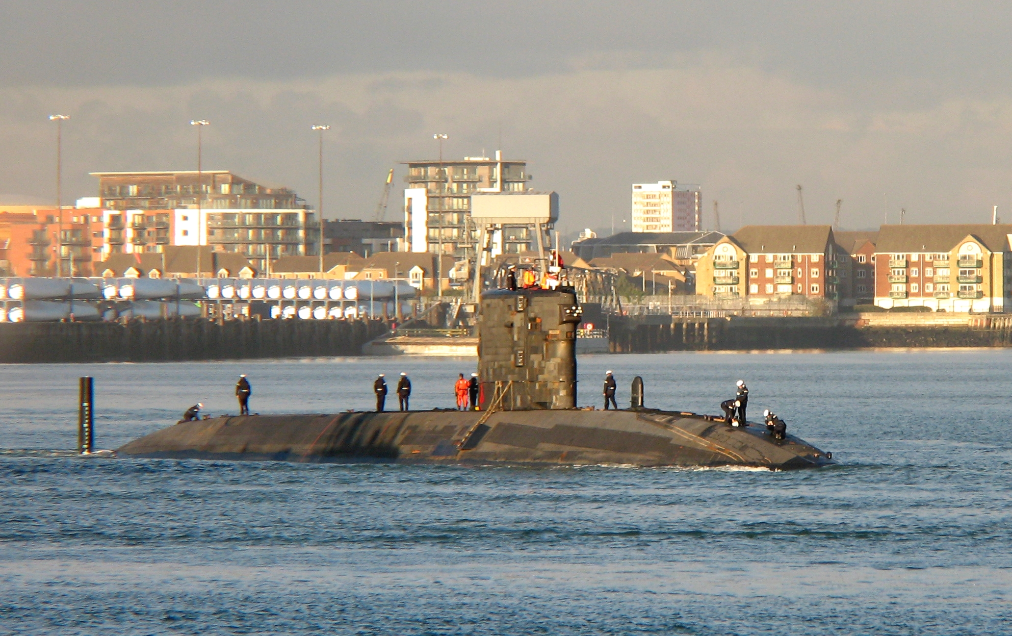 Royal Navy nuclear attack submarine HMS Trafalgar departing 38 berth Southampton Docks, UK, 10th Dec 2008. In the background can be seen the Southampton University National Oceanographic Centre, and stacked on the dockside, scores of wind turbine blades manufactured on the Isle of Wight, and awaiting onward shipment.Image uploaded by me George.Hutchinson from a photograph taken and supplied by Brian Burnell. The photograph should be attributed to Brian Burnell.